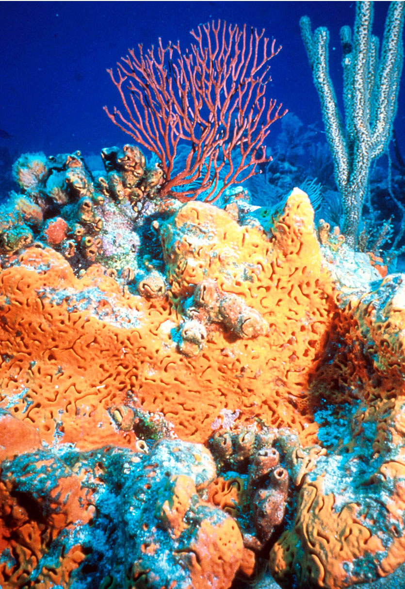 An orange Elephant Ear sponge (Agelas clathrodes) at the Florida Keys National Maritime Sanctuary. In the background is a deep water sea fan (Iciligorgia schrammi), and the giant slit-pore sea rod (Plexaurella nutans). These soft corals are actually slow moving animals but are often mistaken for plants. (elephant ear sponge at the Florida Keys National Maritime Sancturay)